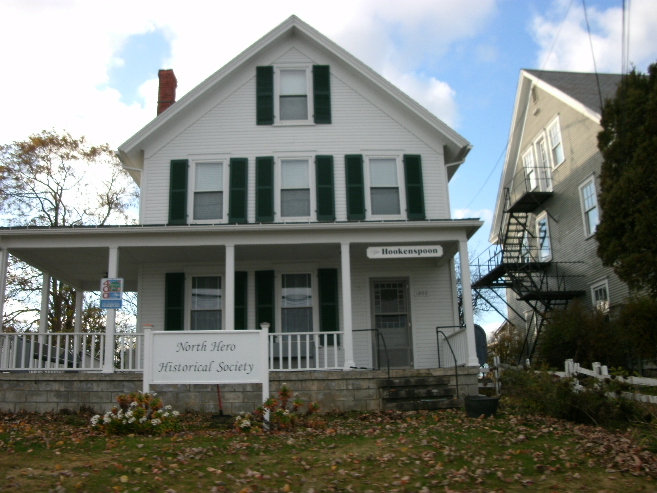 GE DIGITAL CAMERA North Hero, Vermont